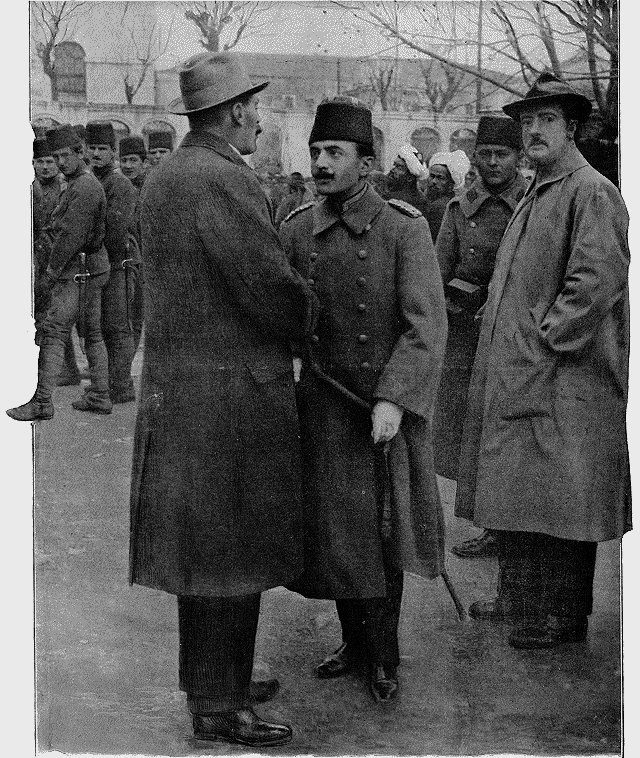 Lieutenant Colonel Ernest Tyrrell, head of the British military attaché in Istanbul, and Enver Bey after 1913 Ottoman coup d'état.